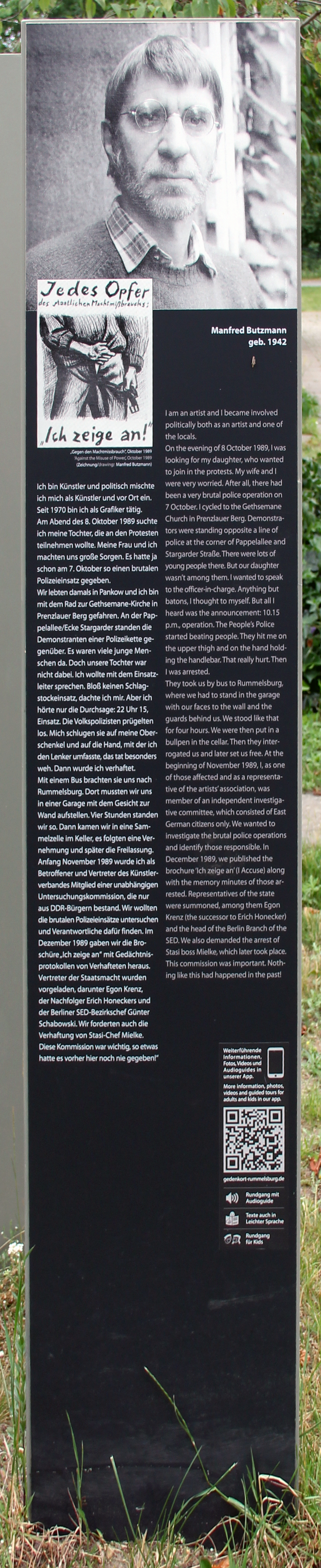 Memorial plaque, Manfred Butzmann, Friedrich-Jacobs-Promenade, Berlin-Rummelsburg, Deutschland